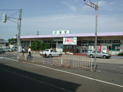 Maki Station in Nishikan-ku, Niigata city, Niigata Prefecture, Japan